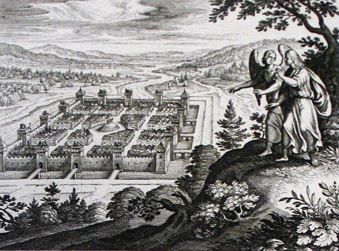 Apocalypse 39. A new heaven and new earth. Revelation cap 21 v 2. Merian. Phillip Medhurst Collection